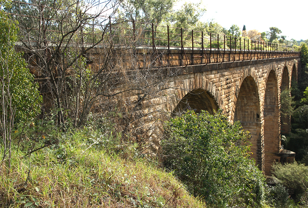 Railway viaduct, built - 1863-7, over Stonequarry Creek, Picton Station, Picton NSW Australia.